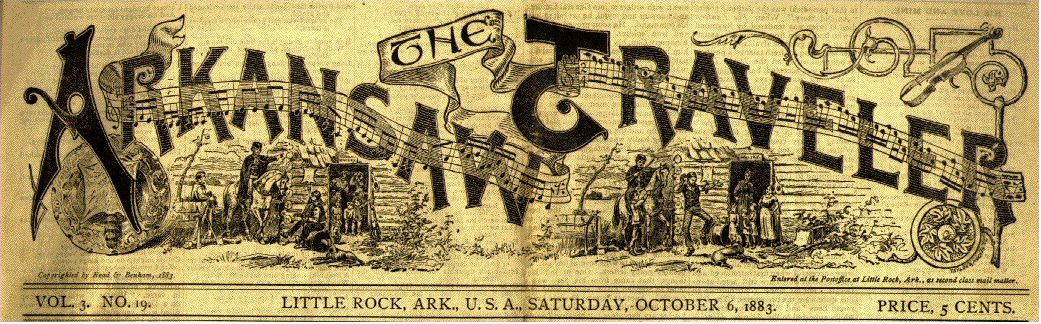 The Arkansaw Traveler, humorous magazine by Opie Read, masthead, 1883